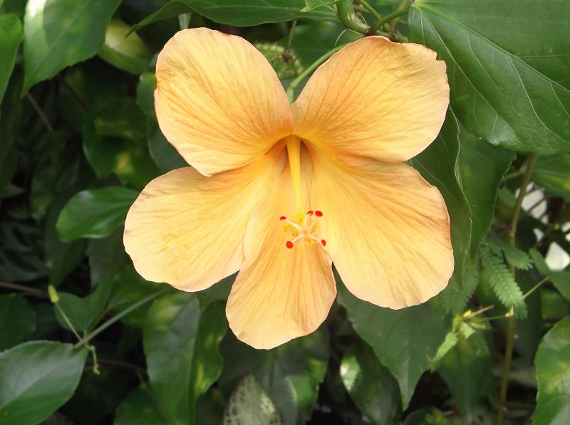 Hibiscus rosa-sinensis with yellow flower in Kew Gardens, England.